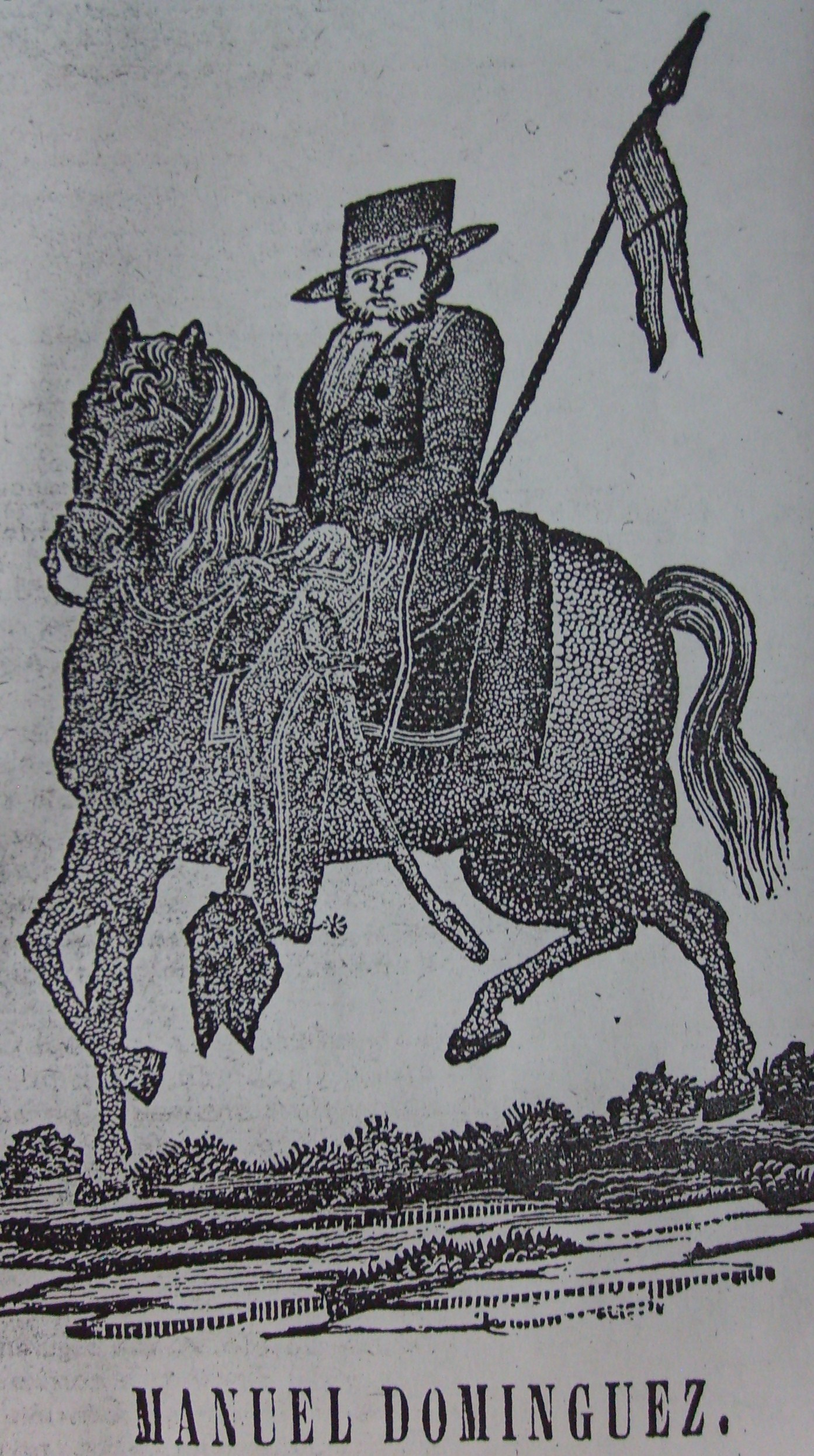 The counter-guerrila chief of the mexican-spy-company Manuel Domínguez and famous highwayman c. XIX